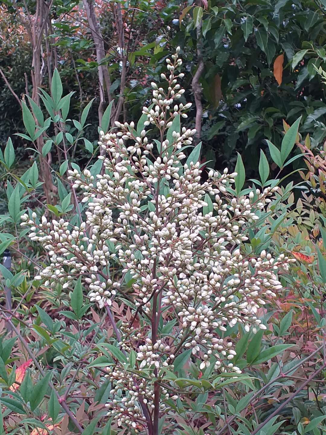 Inflorescence. 2018 Taichung World Flora Exposition, Taiwan.